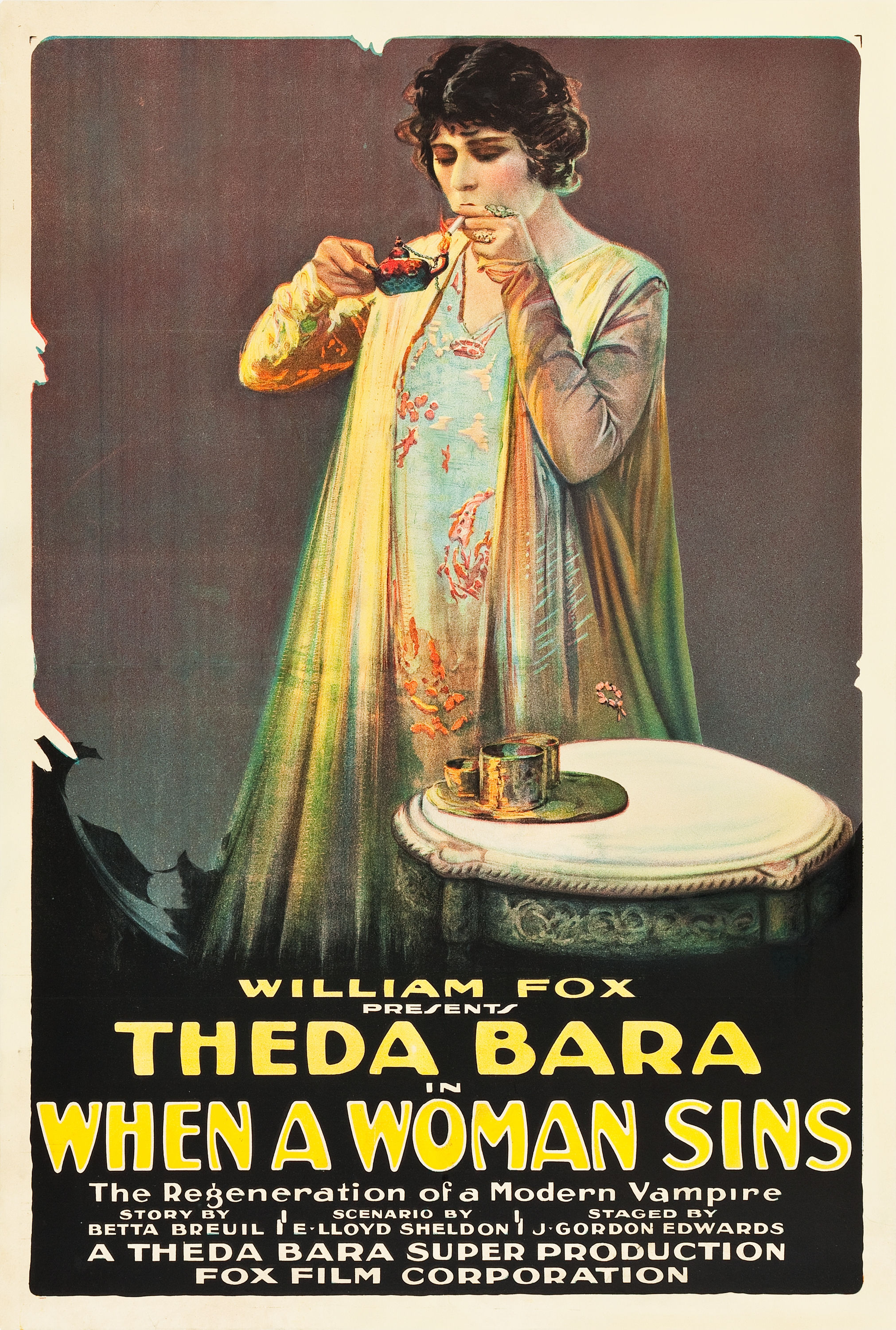 Stone litho movie poster for the American drama film When a Woman Sins (1918) with Theda Bara.